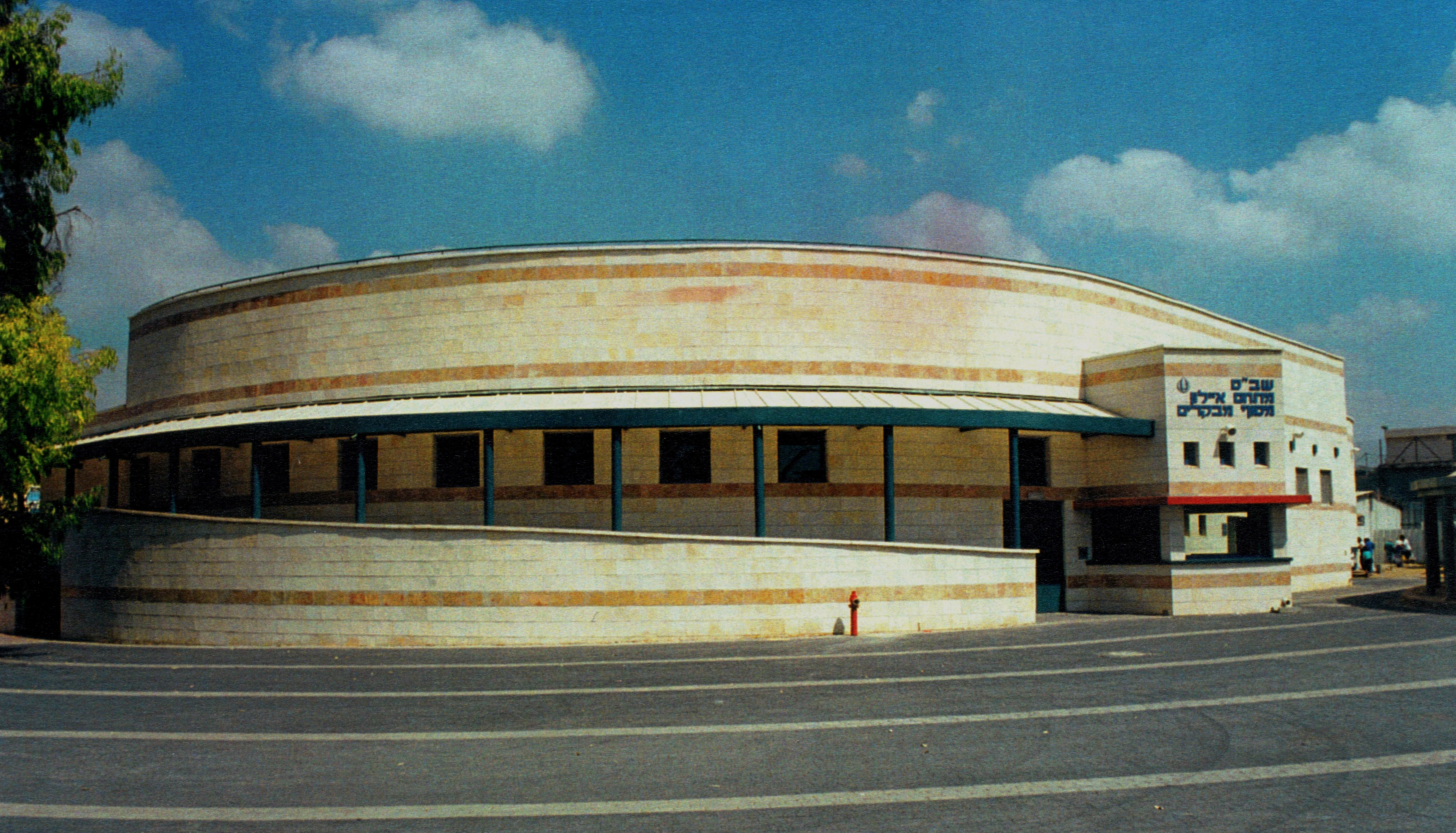 Ayalon Prison Visitor Center by Israeli Architect Yoram Fogel